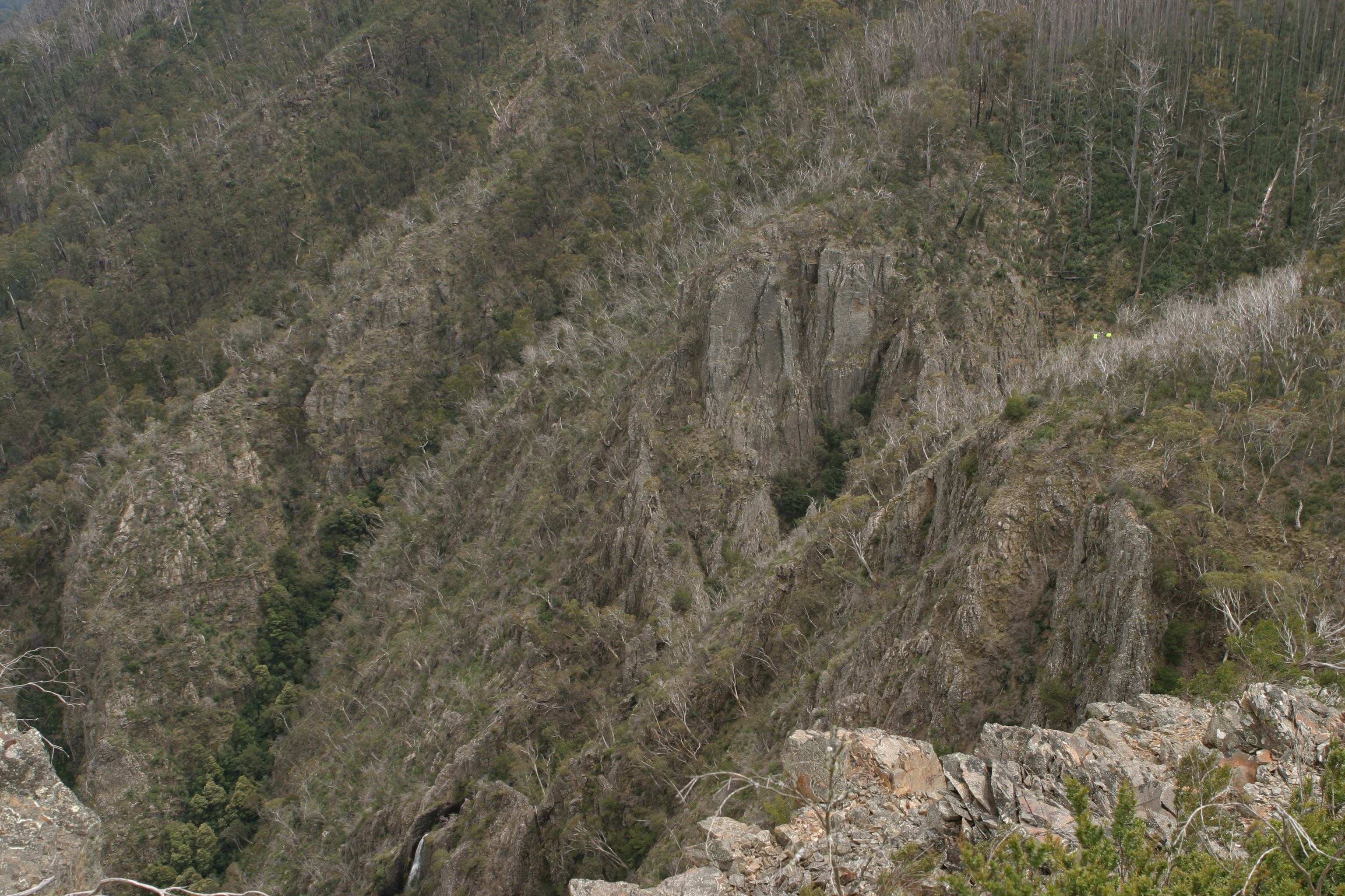 A view of Tin Mine Falls from the South, showing the difficult terrain in which it is located.